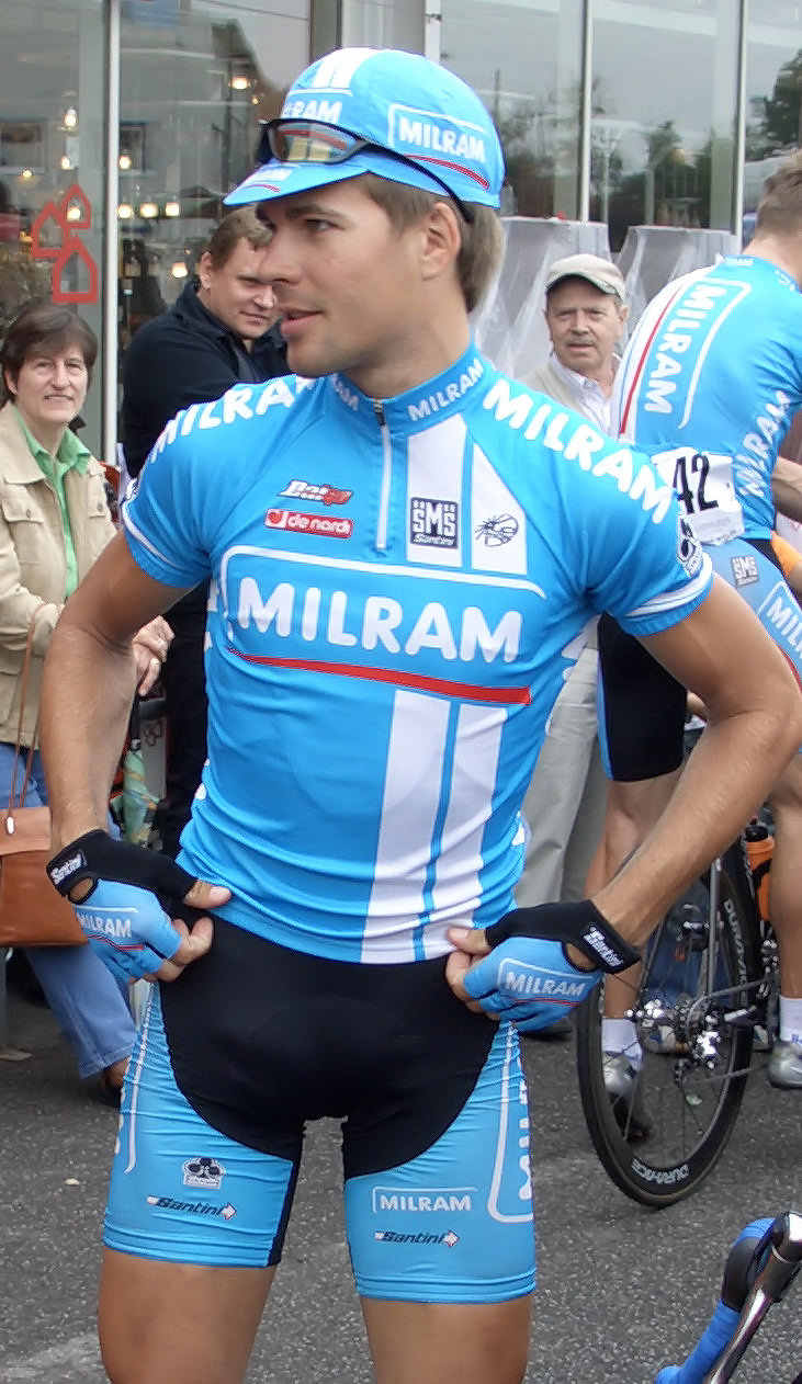 Daniel Musiol at a race in Germany